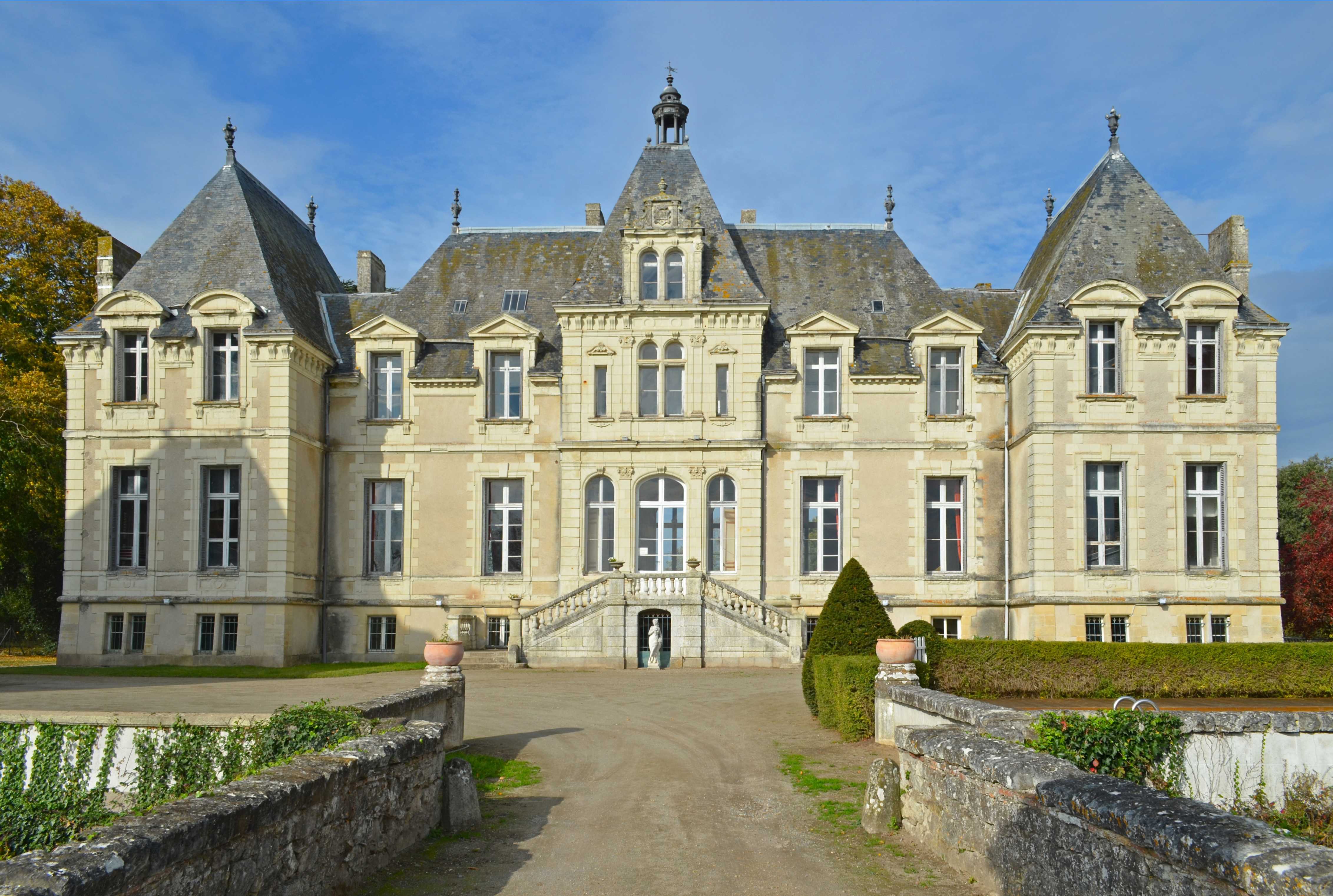 Plessis-de-Vair castle - Anetz (France)